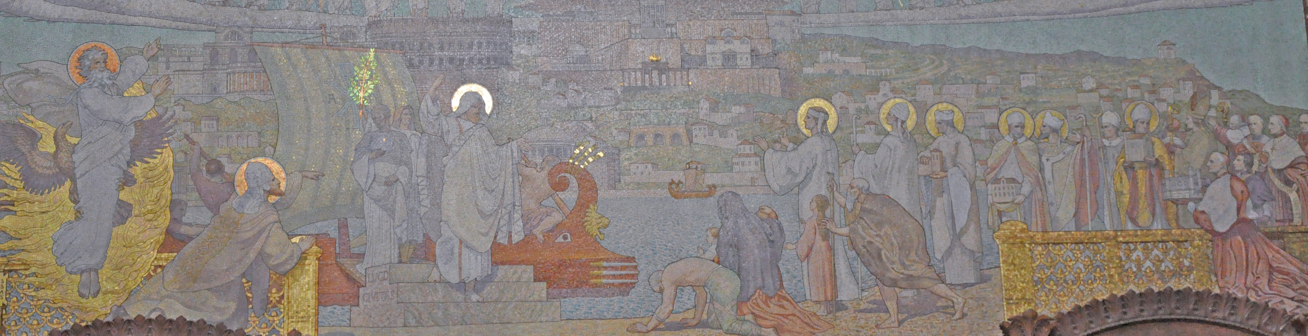 Lyon (France), arrival of saint Pothin in Lyon, from ship.